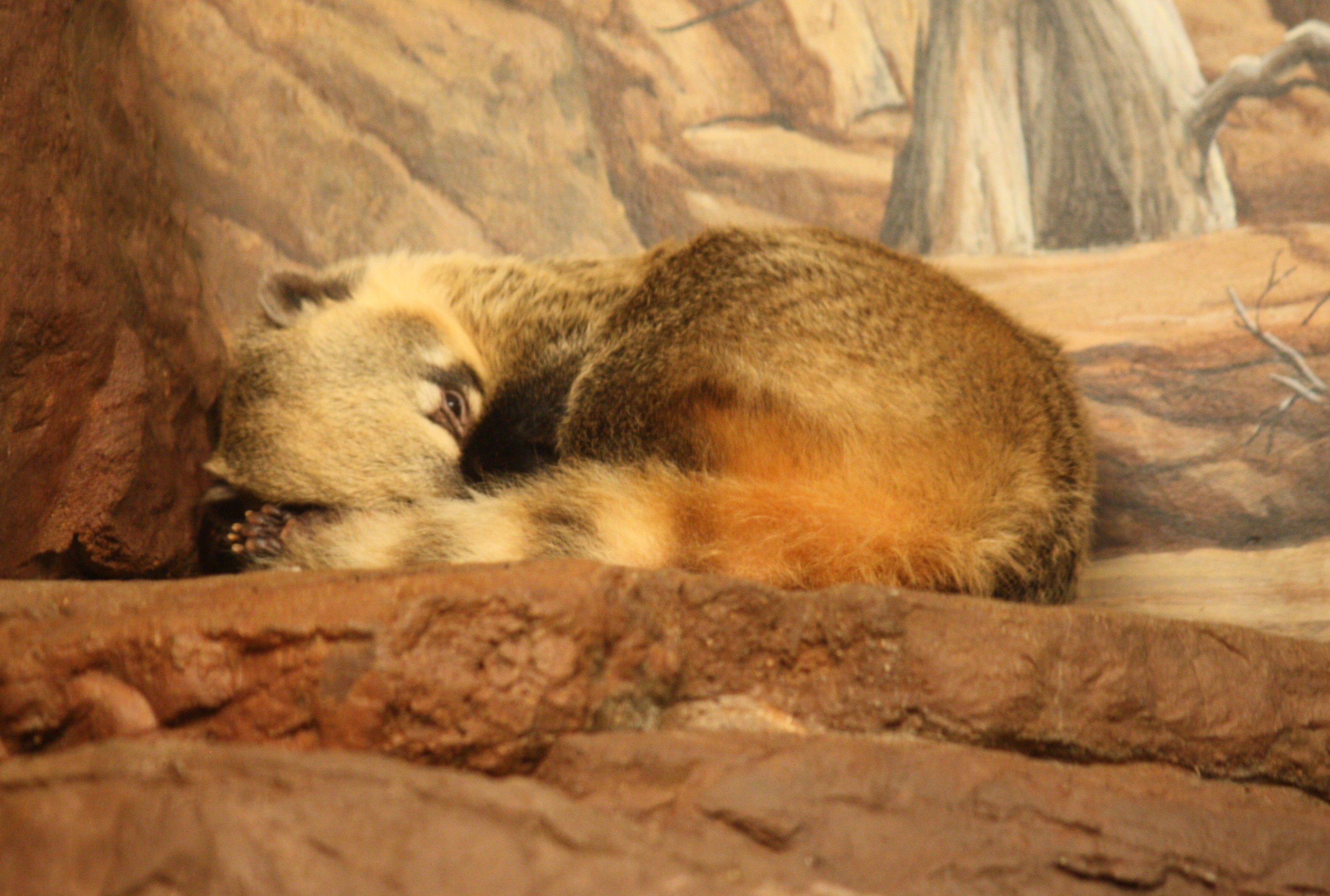 Coatimundi Nasua nasua at Cincinnati Zoo